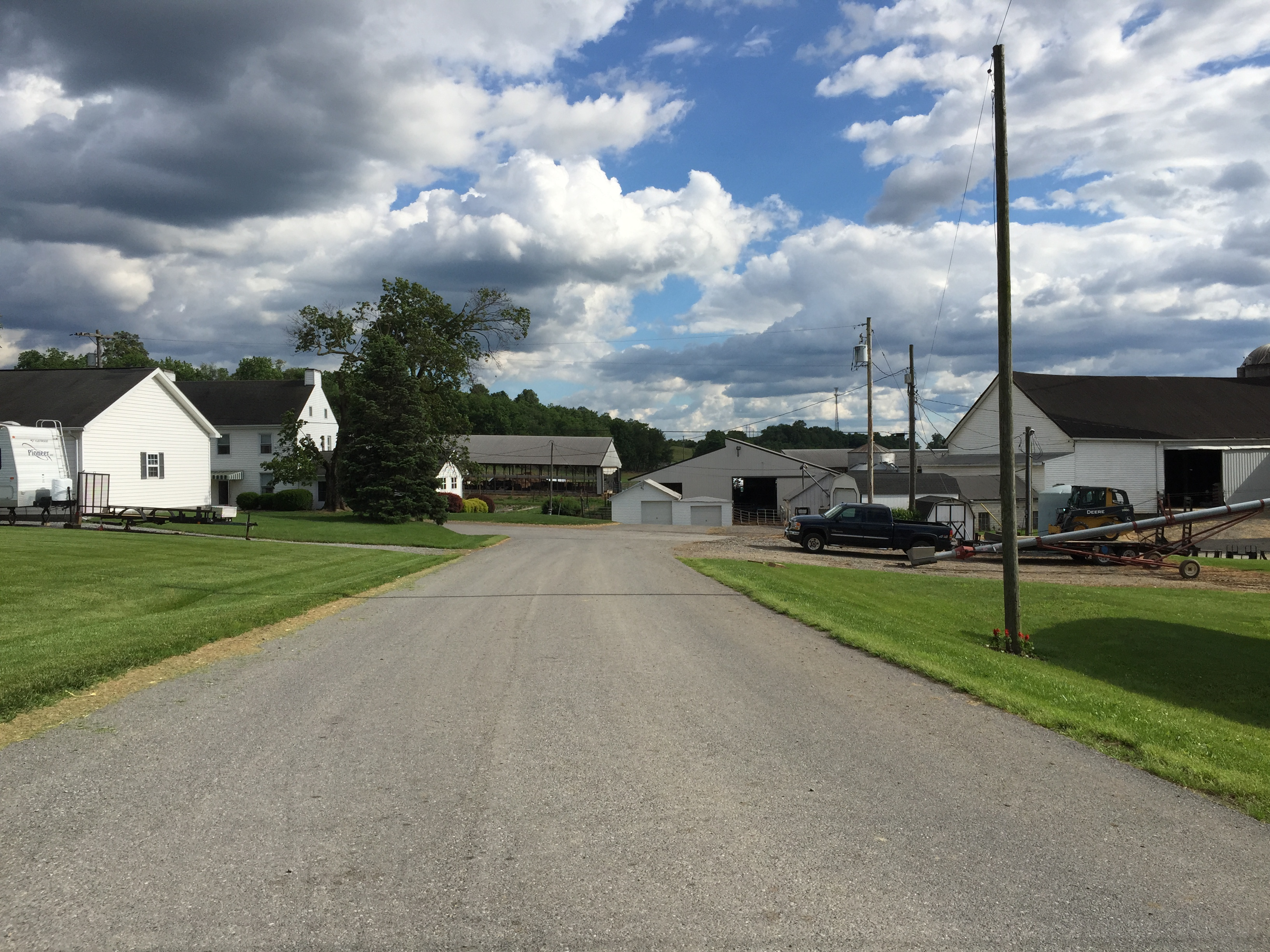 View south along Maryland State Route 846 at Maryland State Route 418 (Ringgold Pike) in Ringgold, Washington County, Maryland